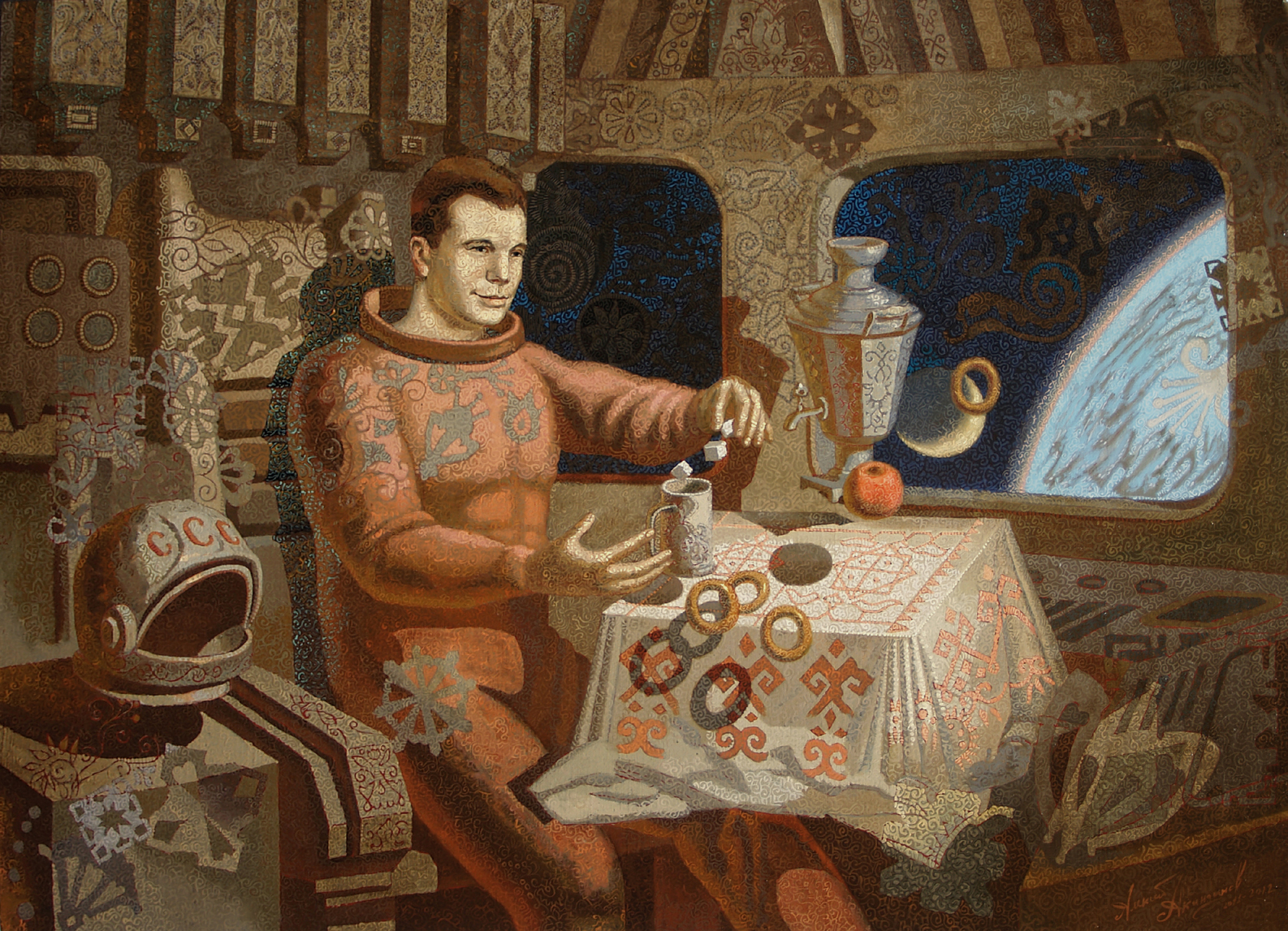 Alexey Akindinov's picture «Gagarin's Breakfast», 83,5х115,5 centimeters, canvas, oil. 2011-2012 years of establishment.